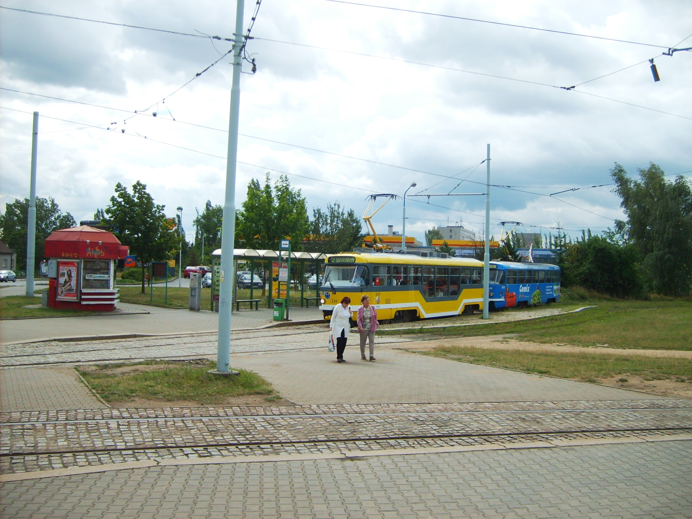 Terminus Světovar with tram on line 2 in Plzeň.